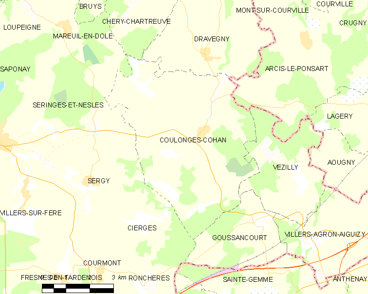 Map of French commune: Coulonges-Cohan Map commune FR insee code 02220.png